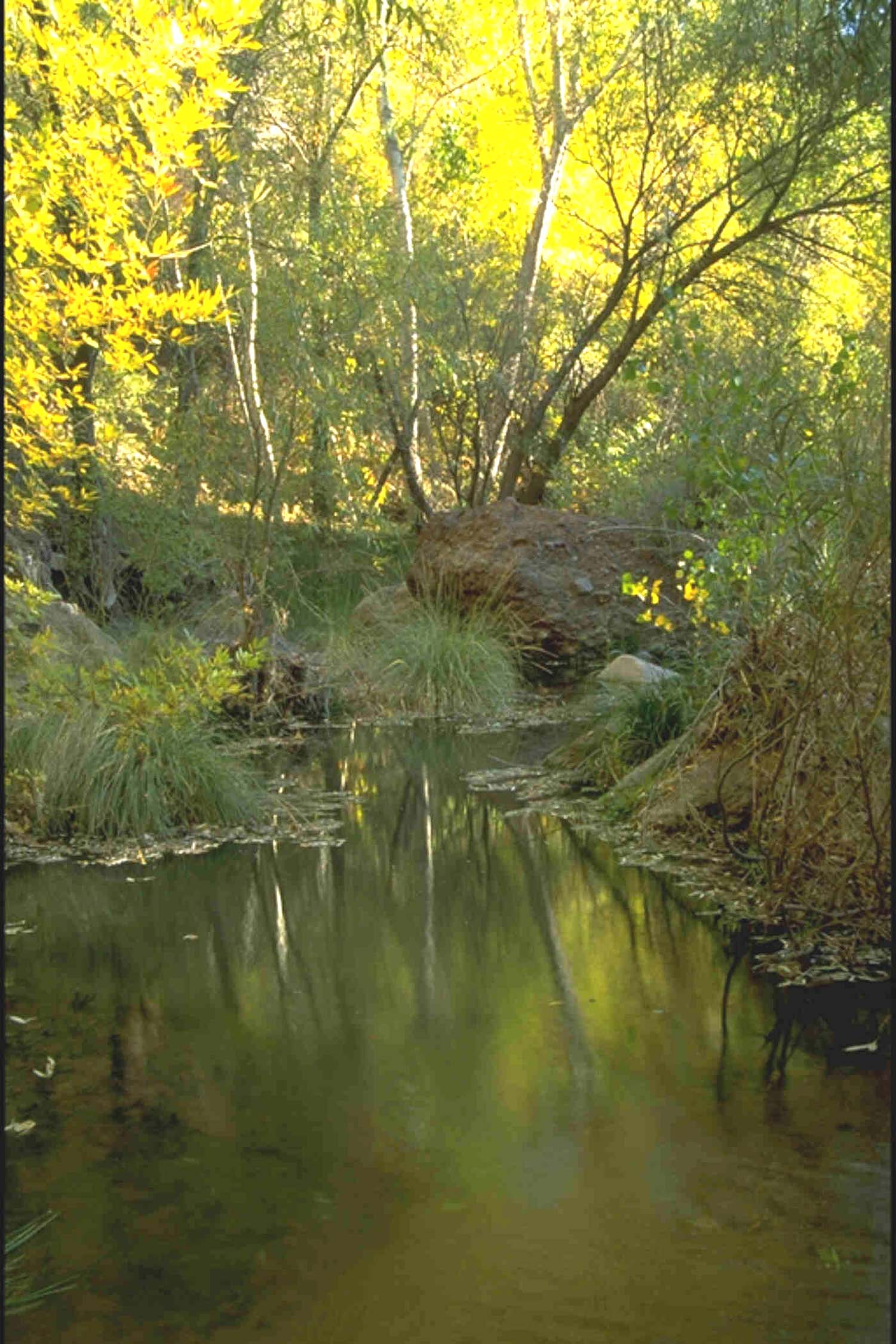 Fall colors brighten a pool near the western end of Aravaipa Canyon. SFO-REC-ACW-008.jpg